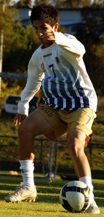 Kaz Patafta at Newcastle Jets training